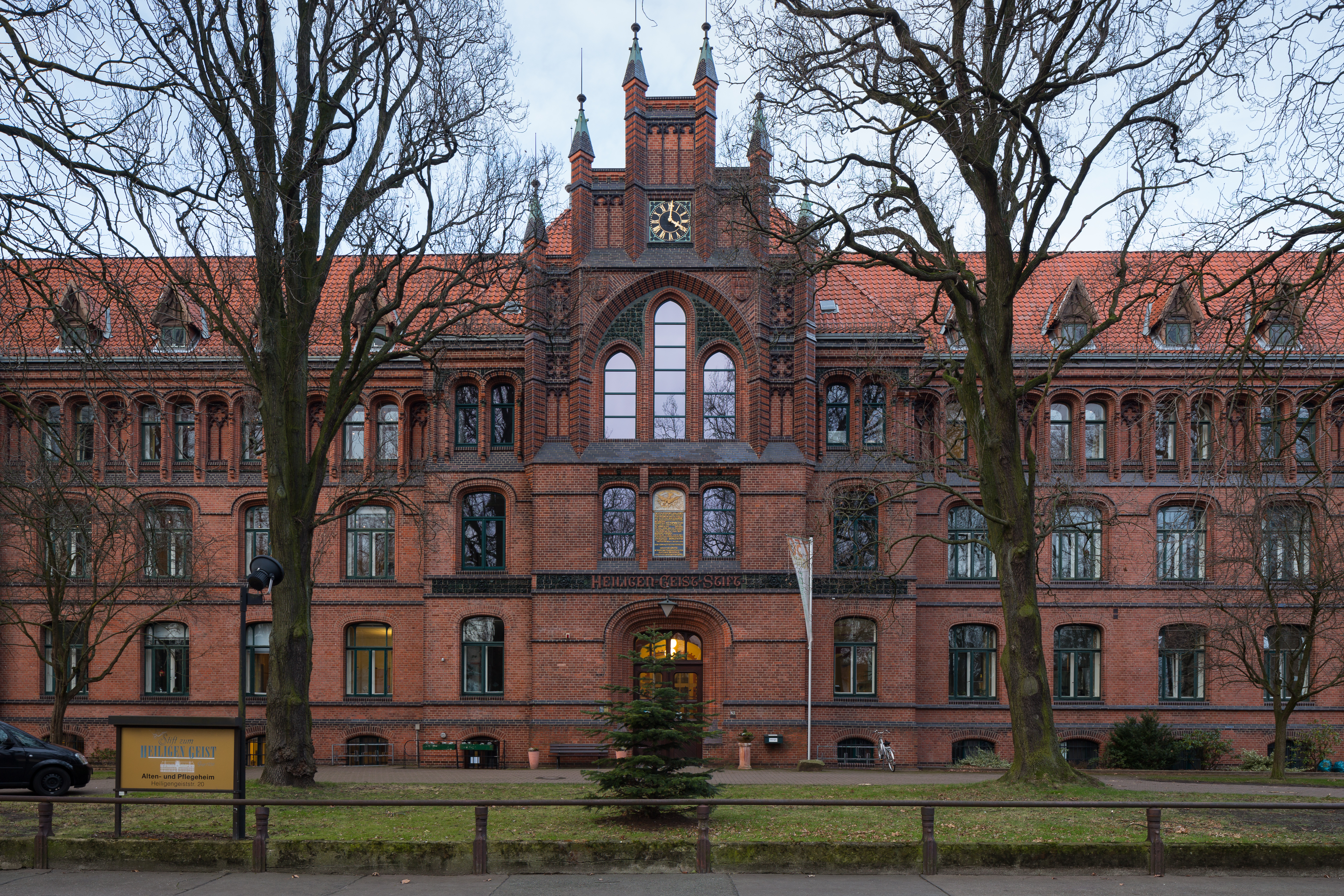 Retirement home "Stift zum Heiligen Geist" locatedt at Heiligengeiststrasse no. 20 in Bult district of Hannover, Germany.